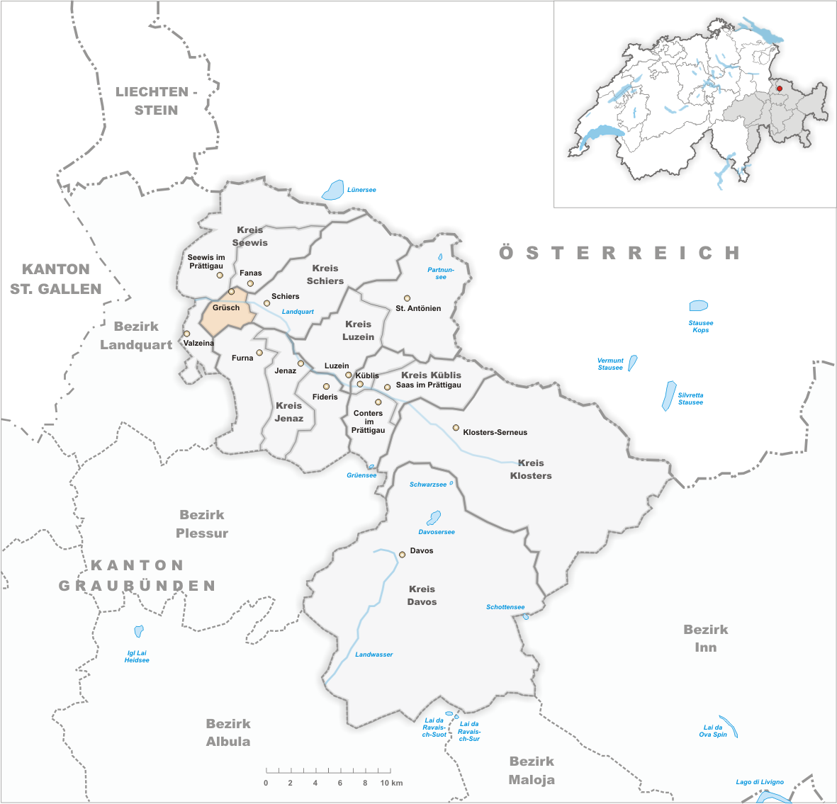 Municipality Grüsch